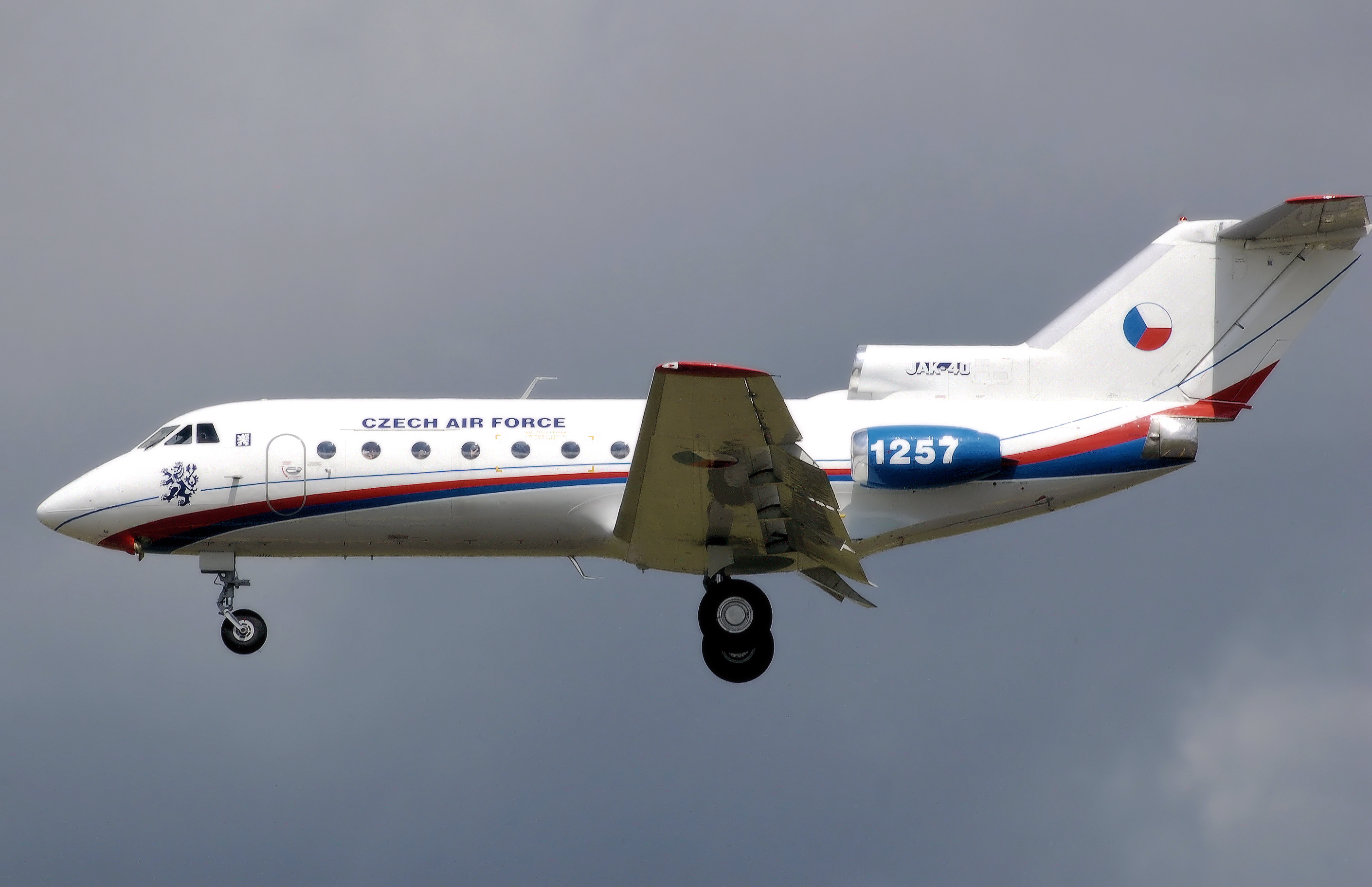 Yakovlev Yak-40 (code 1257) of the Czech Air Force at the 2008 Royal International Air Tattoo, RAF Fairford, Gloucestershire, England. Taken at RIAT Fairford on the Thursday before the weekend show days. Later, both show days (Saturday and Sunday) were cancelled because of waterlogged car parks. Photographed by Adrian Pingstone in July 2008 and placed in the public domain.